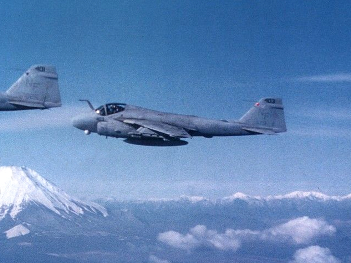 Two U.S. Navy Grumman A-6E Intruder (BuNo 157025, 159575) of Attack Squadron 185 (VA-185) "Nighthawks" in flight. VA-185 was assigned to Carrier Air Wing 5 (CVW-5) aboard the U.S. Navy aircraft carrier USS Midway (CV-41), in 1988.